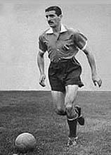 Photo of Vicente De la Mata playing for Club Atlético Independiente